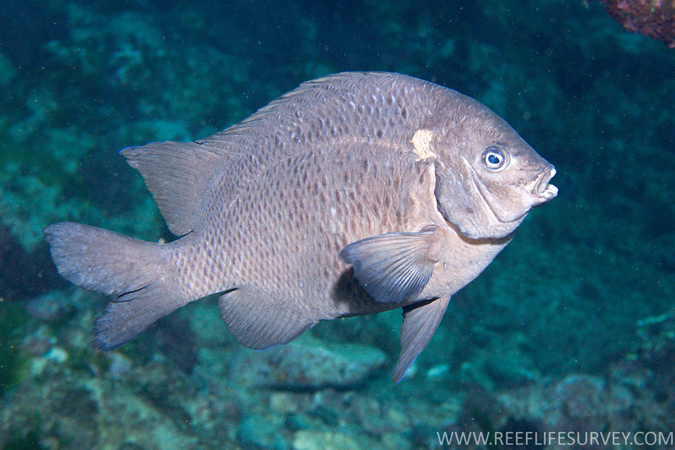 A Black Scalyfin, Parma alboscapularis, at North Head, Lord Howe Island, Tasman Sea.